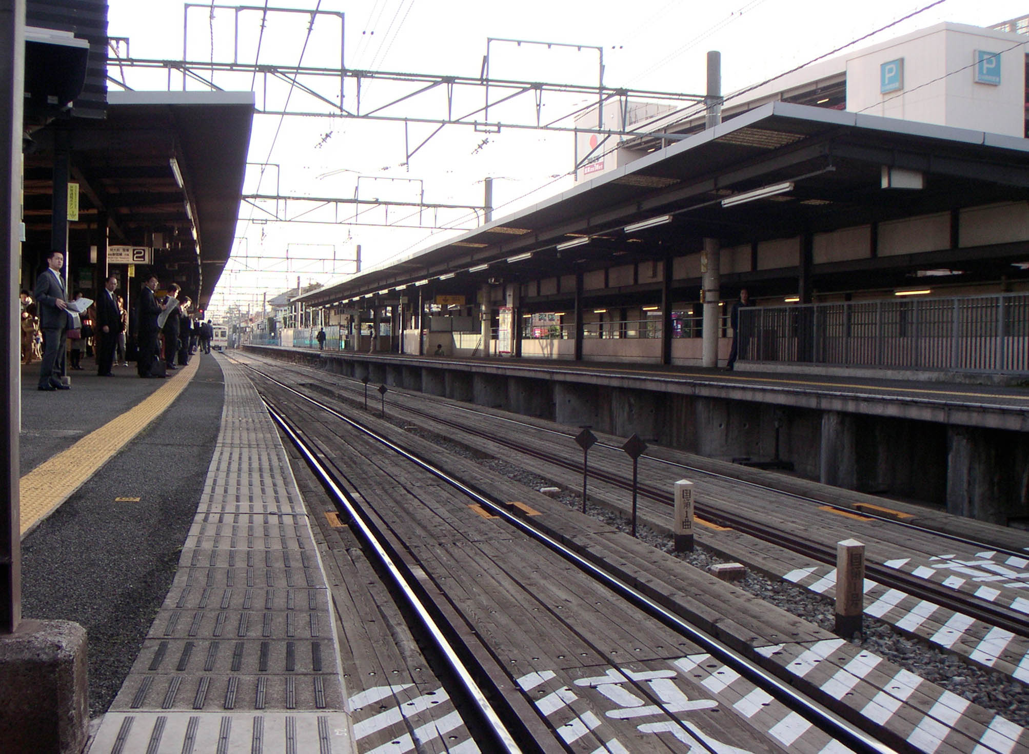 The ground-level platforms at Kokuryo Station on the Keio Line in Chofu, Tokyo, Japan, before rebuilding